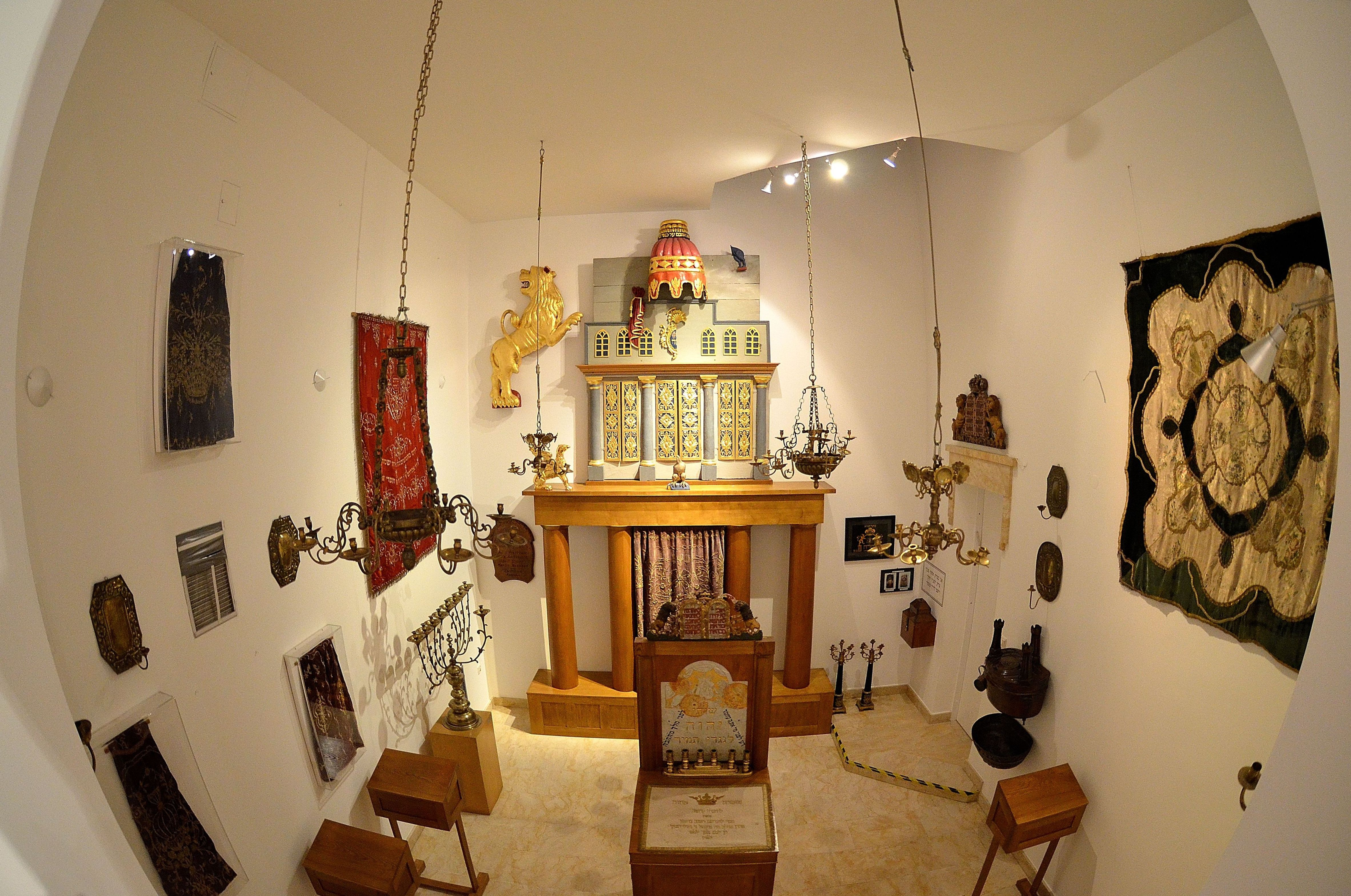 The interior of a synagogue - a permanent exhibition in the Jewish Historical Institute in Warsaw